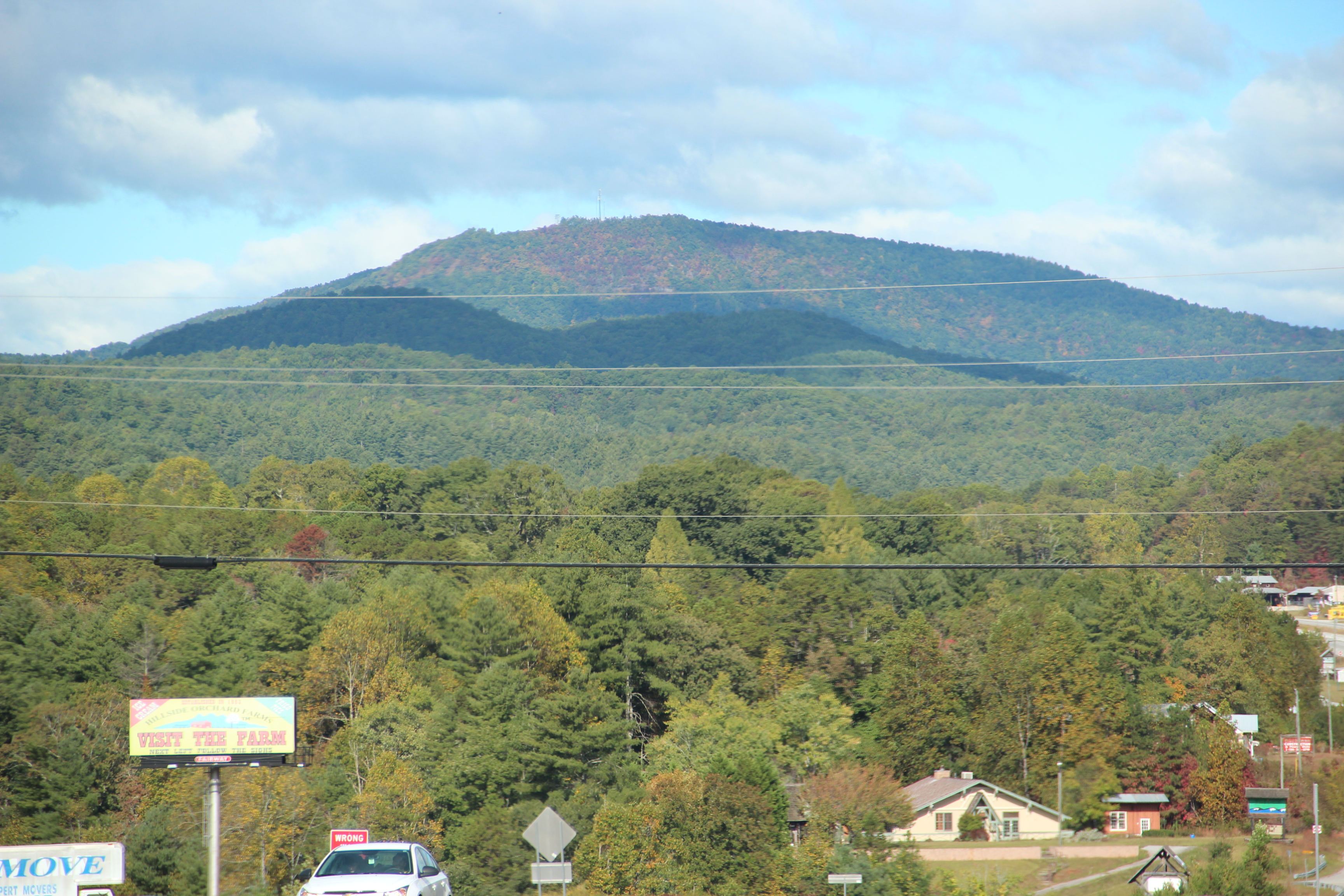 Glassy Mountain (Georgia), October 2016